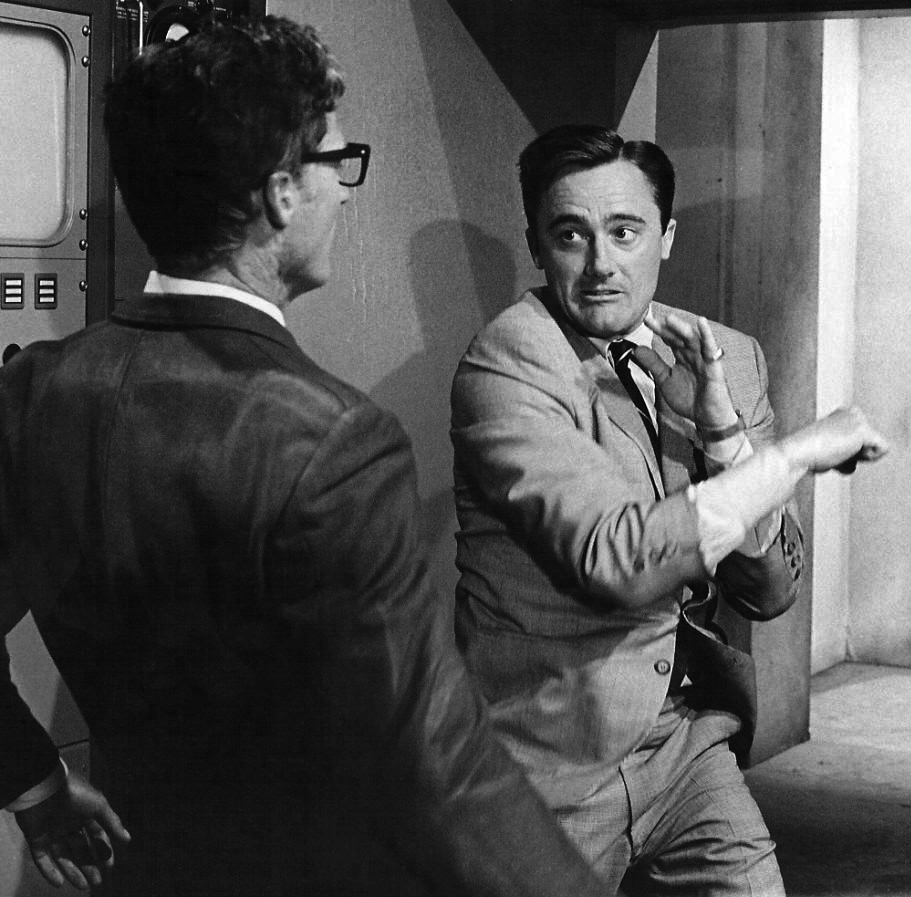 Photo of Robert Vaughn as Napoleon Solo delivering a knockout punch to THRUSH agent played by Herbert Anderson from The Man From U.N.C.L.E.. The episode is "The Suburbia Affair".